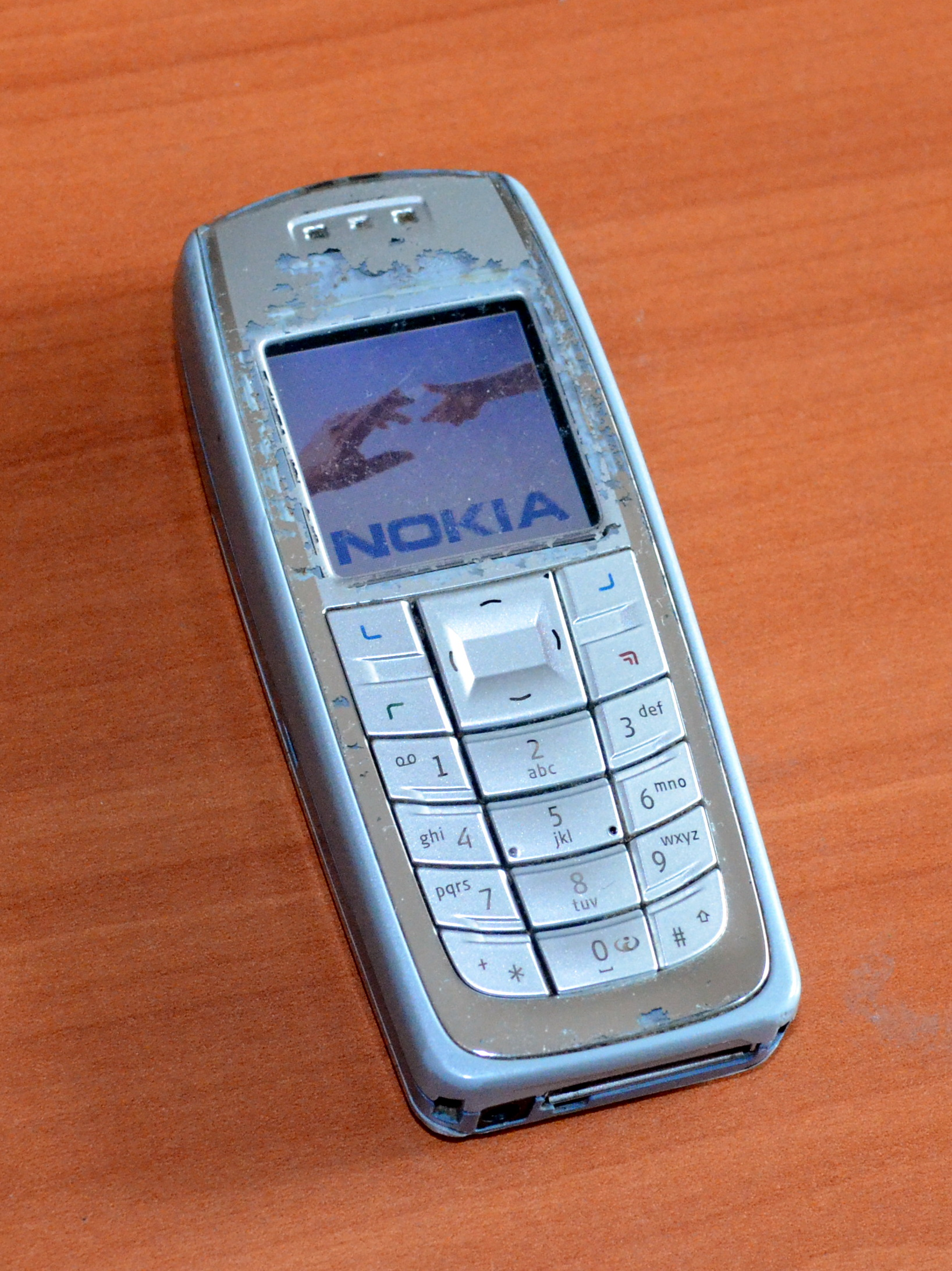 Nokia 3120 with a worn-out silver cover